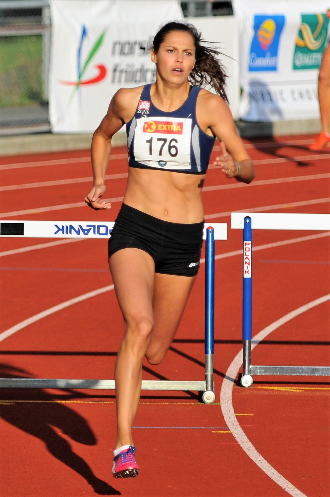 Amalie Iuel on her way to a gold in 400 m hurdles in the Norwegian Athletics Championships in Sandnes 2017.